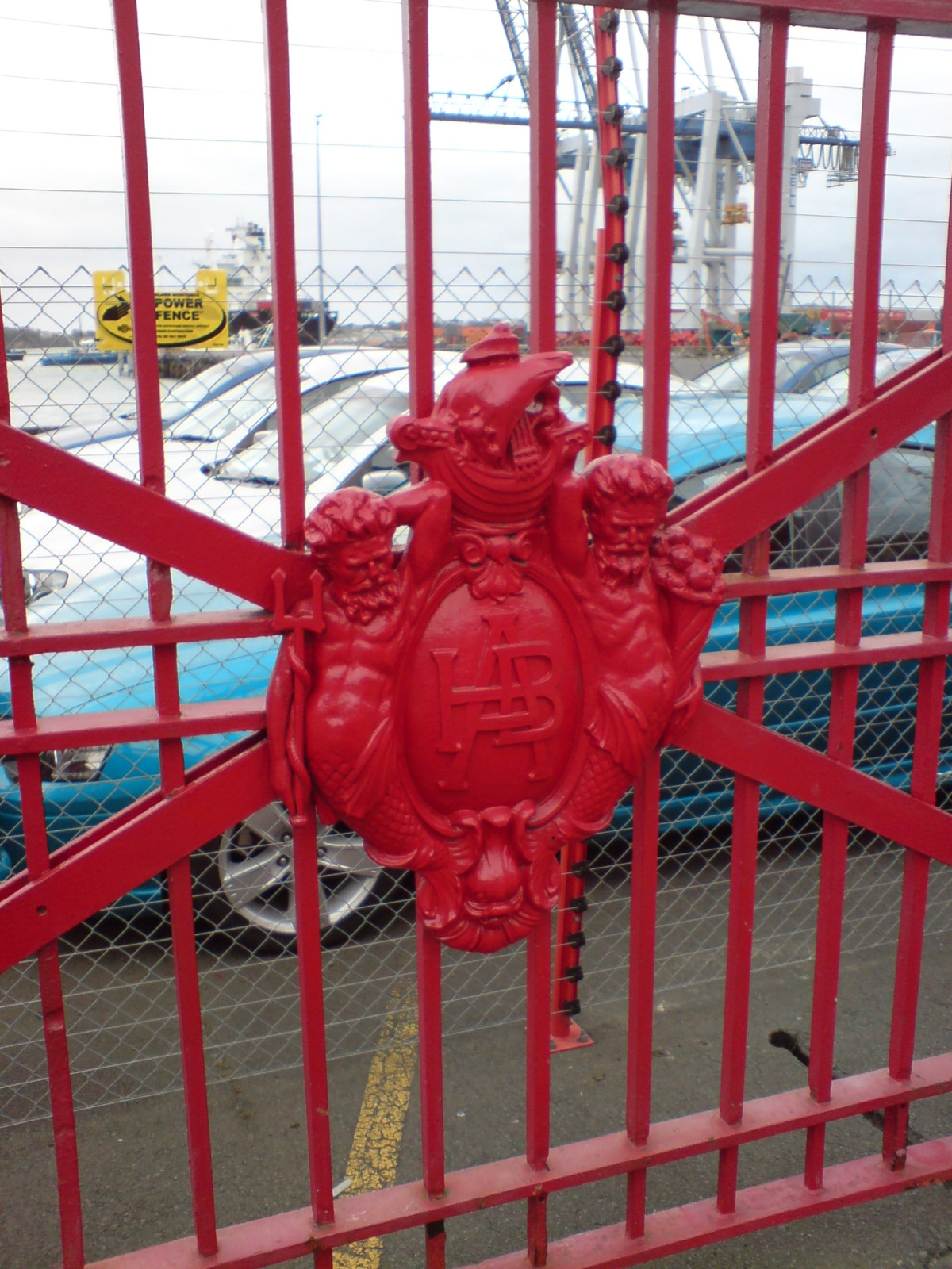 The 'Auckland Harbour Board' seal at the historical fence of the Port of Auckland. Taken in Auckland City, New Zealand.